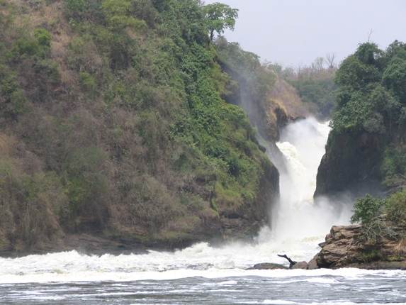 Murchison Falls, downscaled version of File:Murchison Falls - by Boschlech.jpg